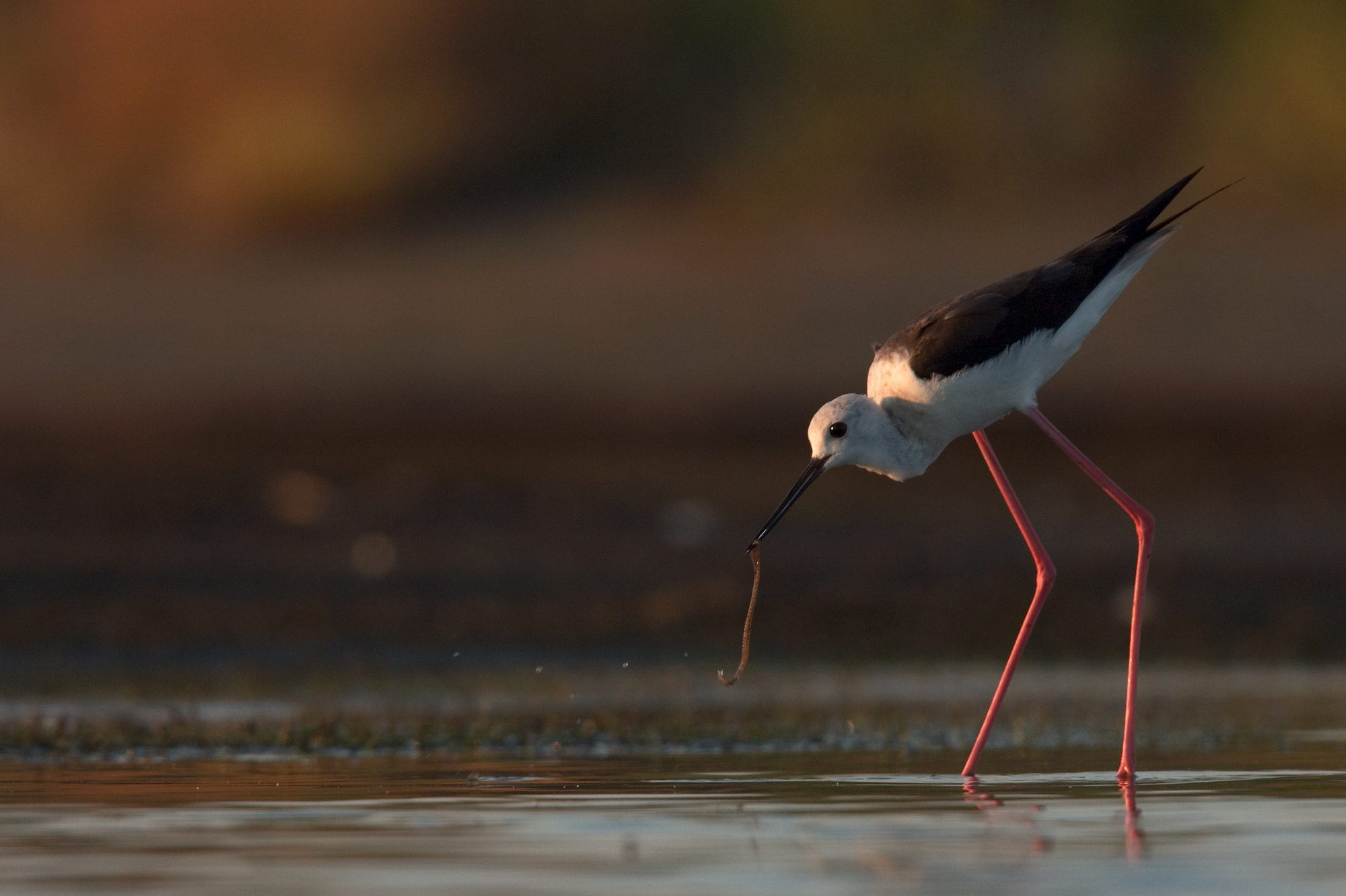 Black-winged Stilt